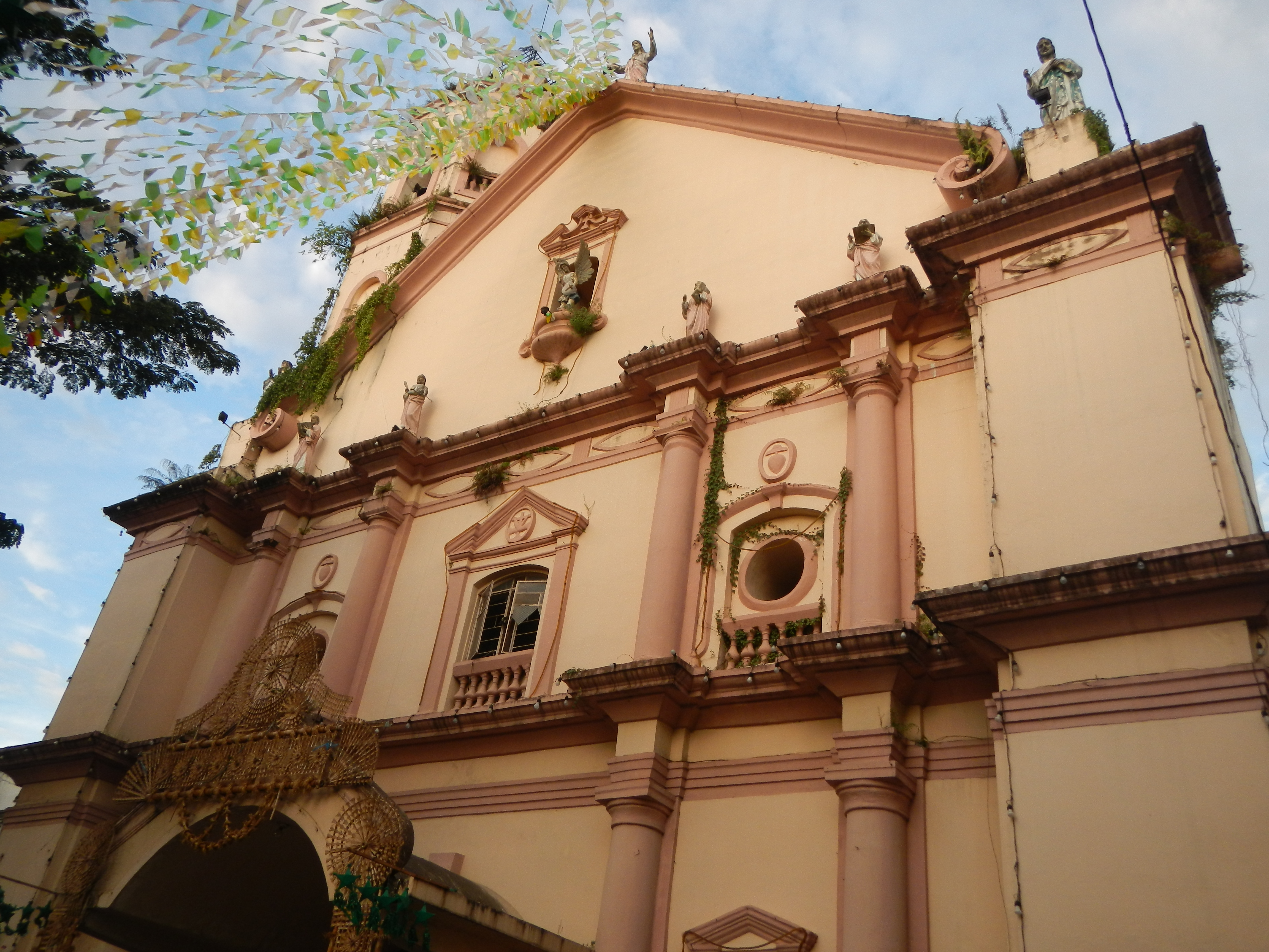 April 21, 1796 St. Michael the Archangel Parish Church, erected by Padre Vicente de Talavera, started contruction in 1848, finished in 1868, burned on 1899, rebuit in 1902 and 1922 and finally in 1967 by Fr. Jose M.Salas. Feasts- May 7 and Sept. 29, Parish Priest, 28th Parish Priest, Rev. Fr. Alberto D.J. Santiago, succeeding Fr. Avelino G. Santos; Parochial Vicar: Fr. Leopoldo Evangelista III[1] a hundred year old spiritual edifice in Poblacion I considered as “place markers” and serve as “points of orientation” to the local residents and visitors as well. [2] Roman Catholic Diocese of Malolos[3]Created: November 25, 1961. Erected: March 11, 1962. Comprises the civil province of Bulacan and the City of Valenzuela. Titular: Immaculate Conception, December 8.[4] (Lat: Dioecesis Malolosinae) is a diocese of the Latin Rite of the Roman Catholic Church in the Philippines. The motherchurch of the Diocese is the Malolos Cathedral located in Malolos City, Bulacan. The diocese was erected in 1961 from its metropolitan, the Archdiocese of Manila. Marilao, Bulacan[5][6][7]